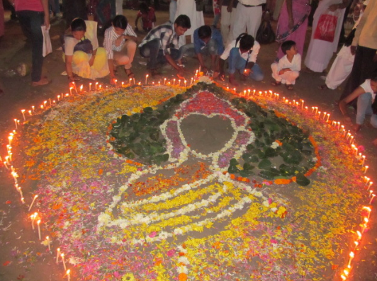 Ambedkar's death anniversary, 6 December, is observed as Mahaparinirvan Din. Lakhs of people across the nation throng Chaityabhoomi to pay homage to him on this day